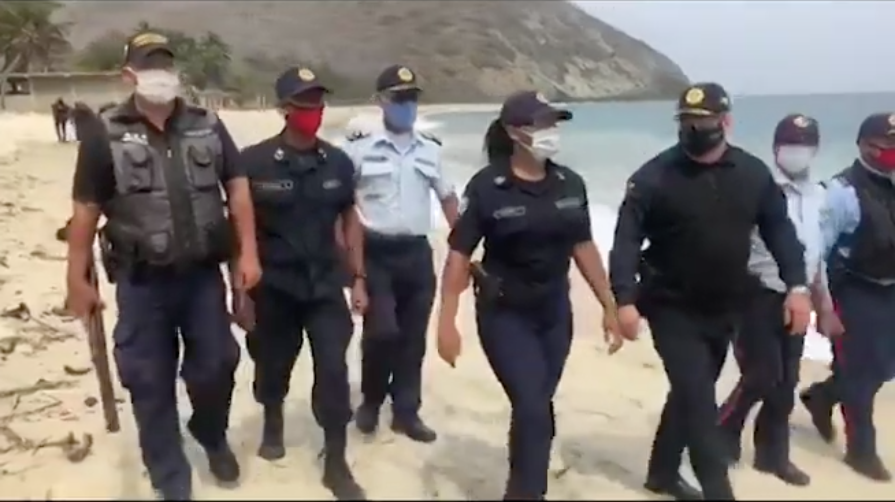 Venezuelan authorities patrolling the coast during Escudo Bolivariano